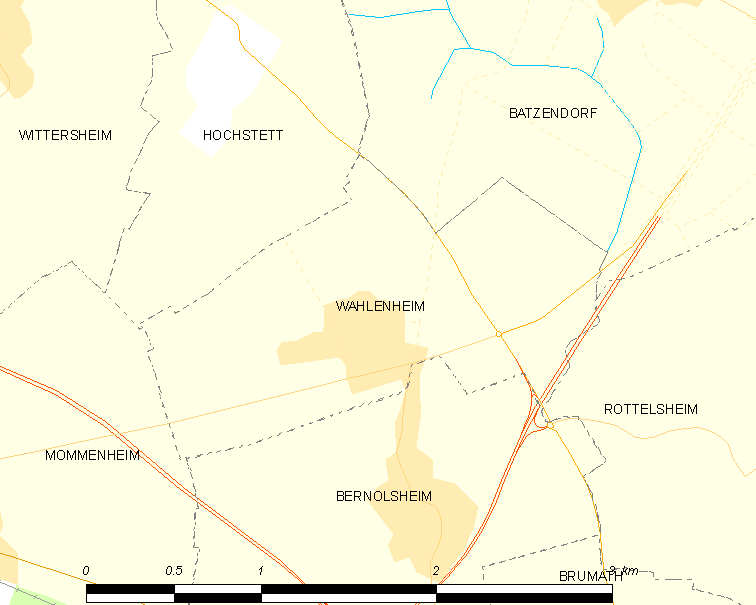 Map of French municipality